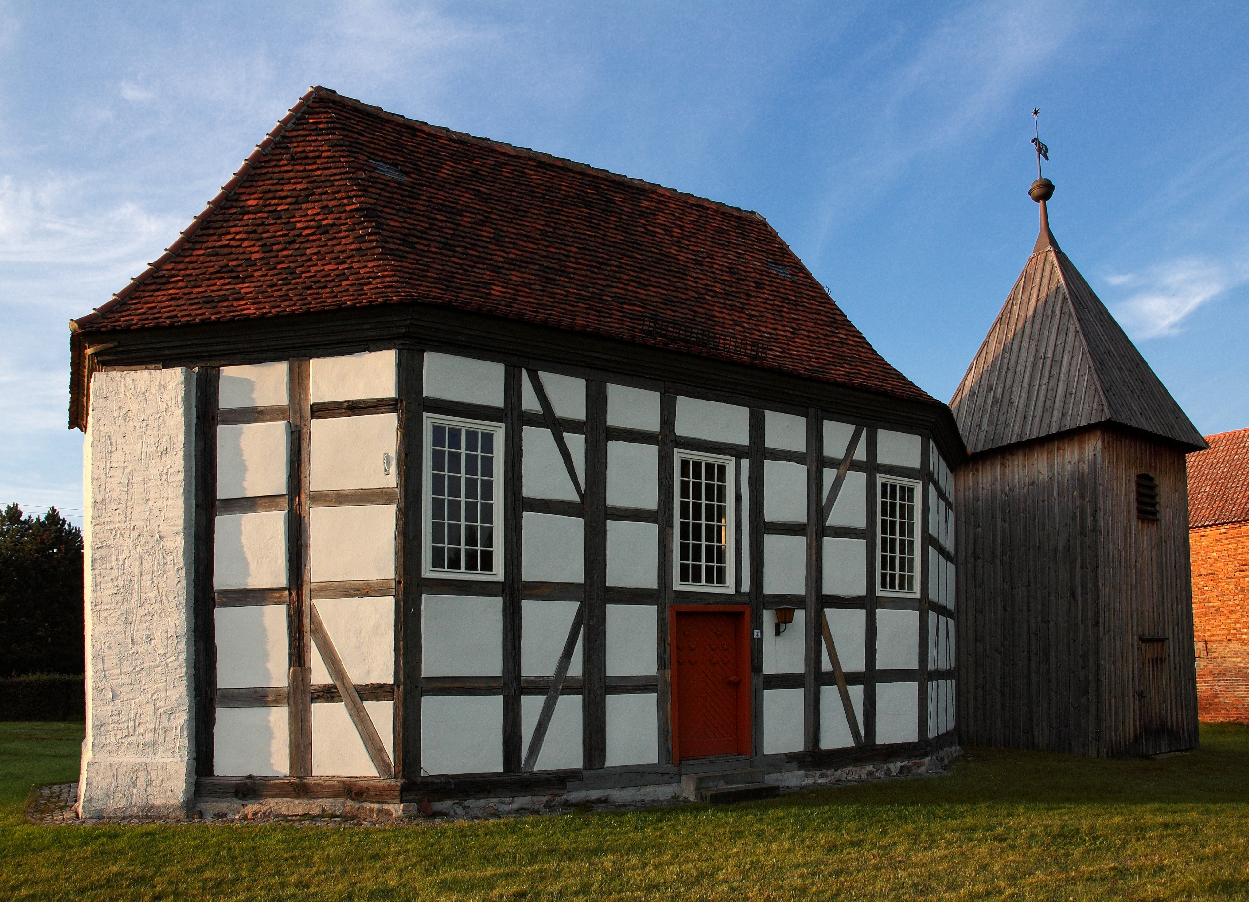 Church of Hohenkuhnsdorf